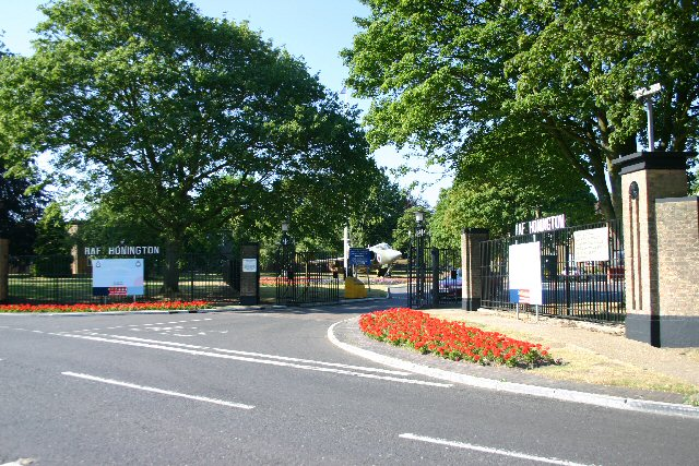 Entrance to RAF Honington. Originally opened in 1937 as a bomber base, Honington is now the RAF Regiment Depot, the last aircraft having left in 1993 when the Tornado Weapons Conversion Unit moved to Lossiemouth.